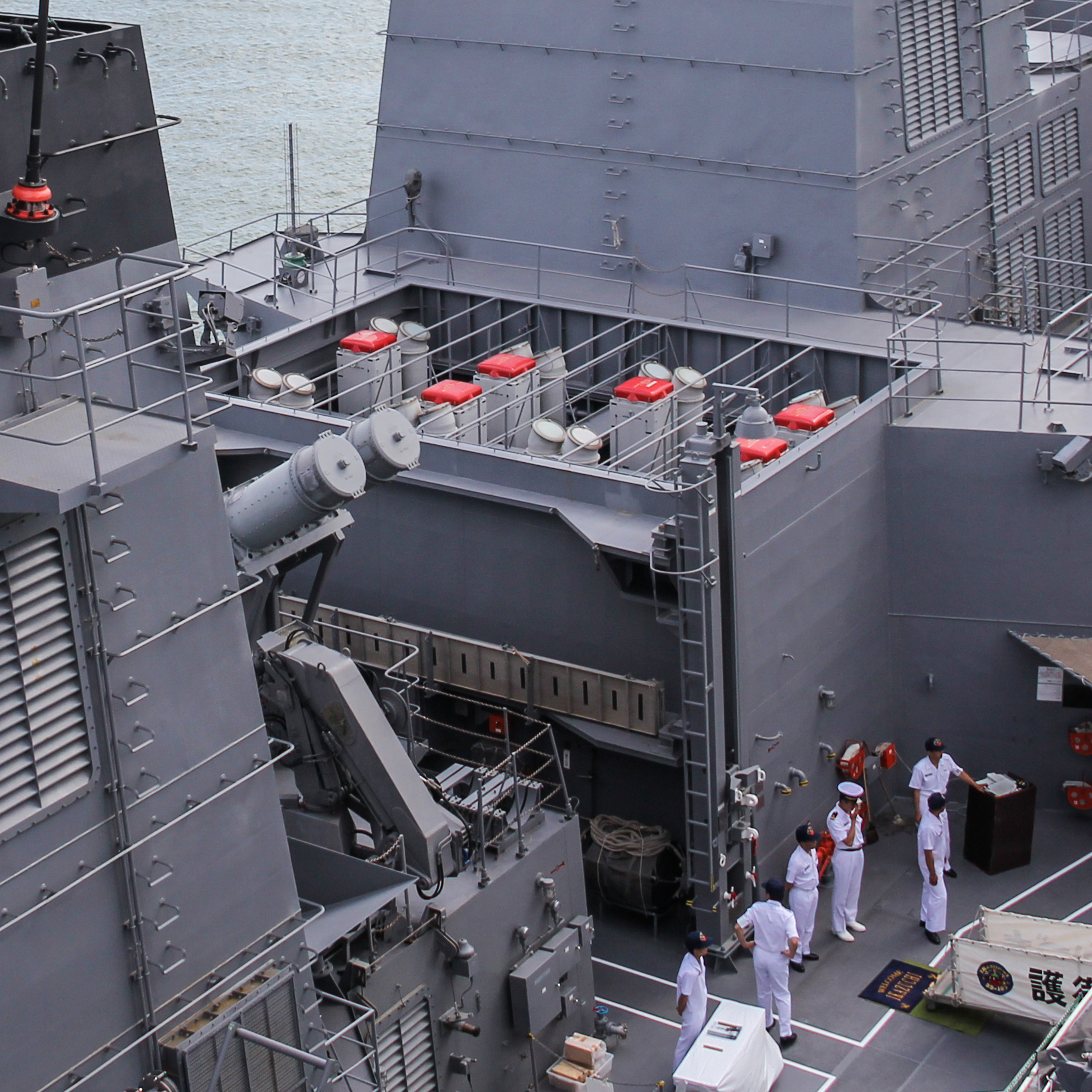 MK48 Mod4 VLS of JS DD-107 Ikazuchi seen from JS DDG-1174 Kirishima (2011 September 23)